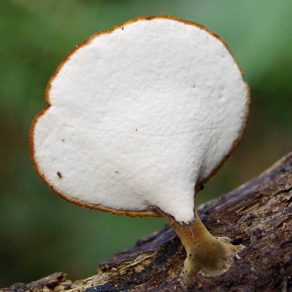 The polypore mushroom Microporus affinis. Specimen photographed in Dandenong Ranges National Park, Victoria, Australia.